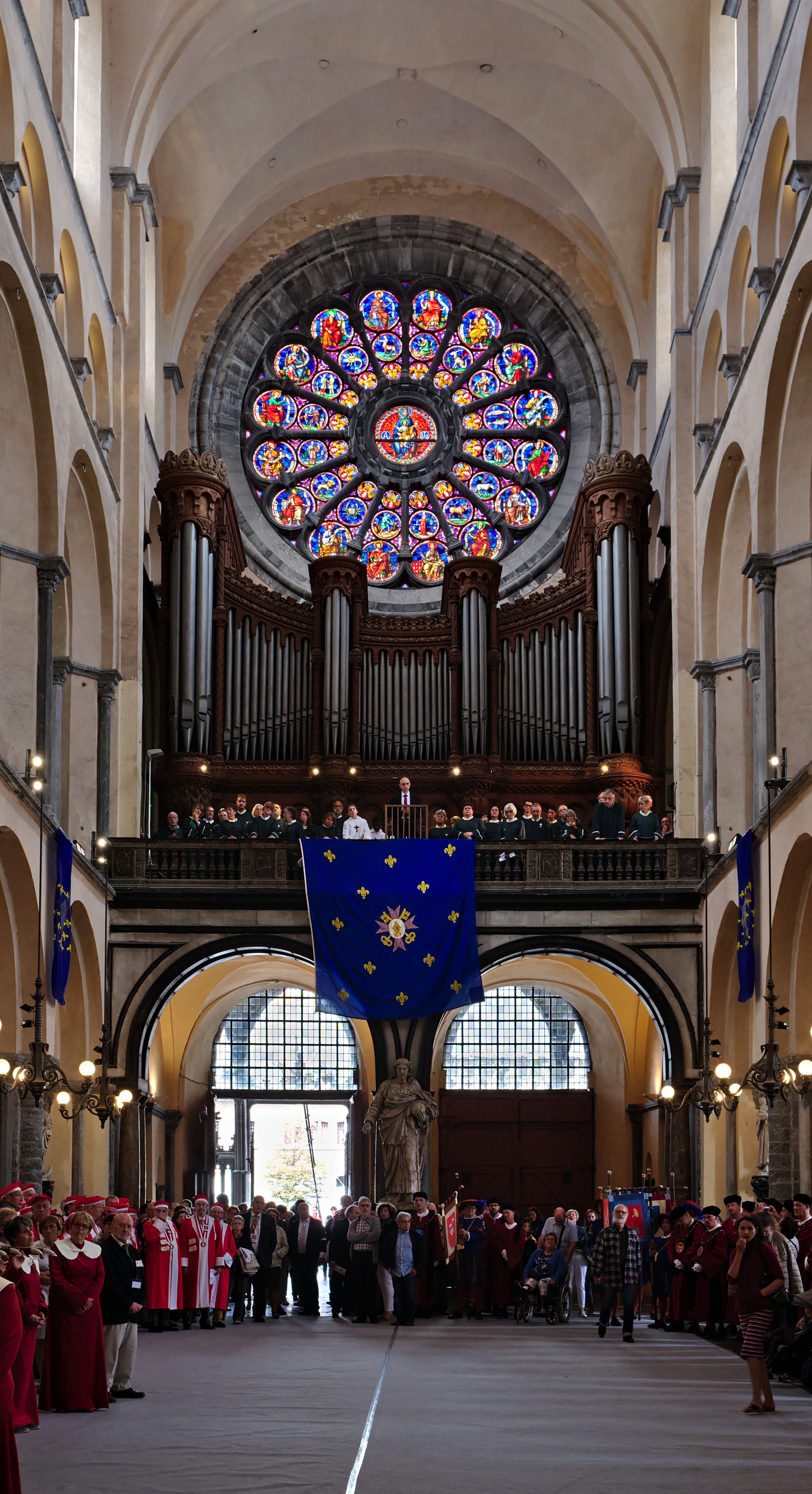 Return from the great procession of Tournai This photo of immovable heritage has been taken in the Walloon Region